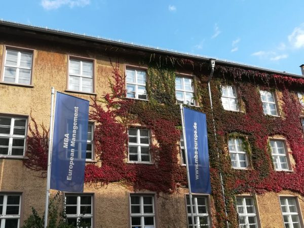 Front of the European Institute for Advanced Behavioural Management at Saarland University